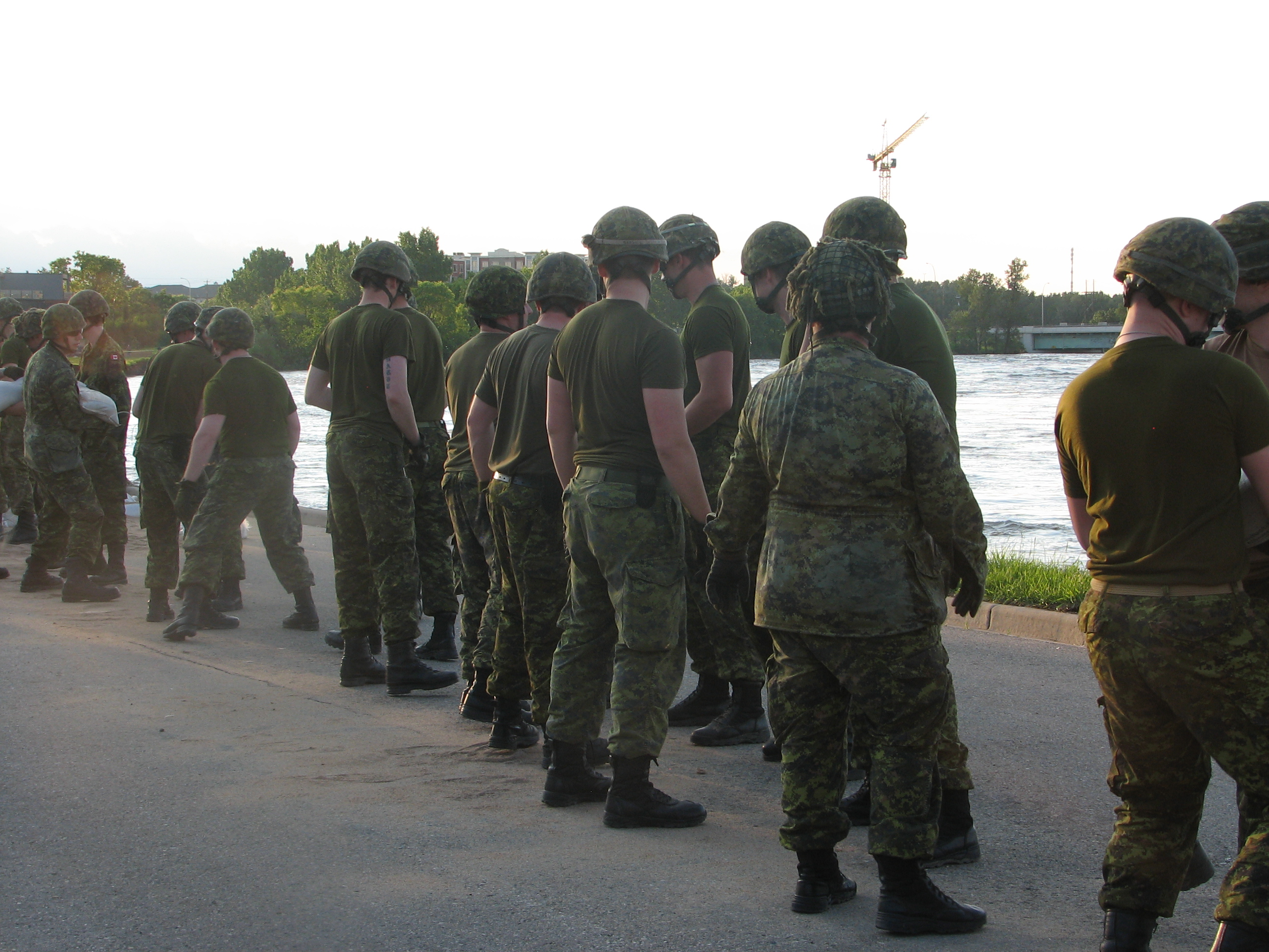 Soldiers of Task Force SILVERTIP work on the banks of the Bow River in Inglewood, Calgary, during the Southern Alberta flood of June 2013. These soldiers are part of a 500-strong mobilization of local Canadian Army reservists and consist of a platoon from The Calgary Highlanders. Photo by Corporal Michael Dorosh.